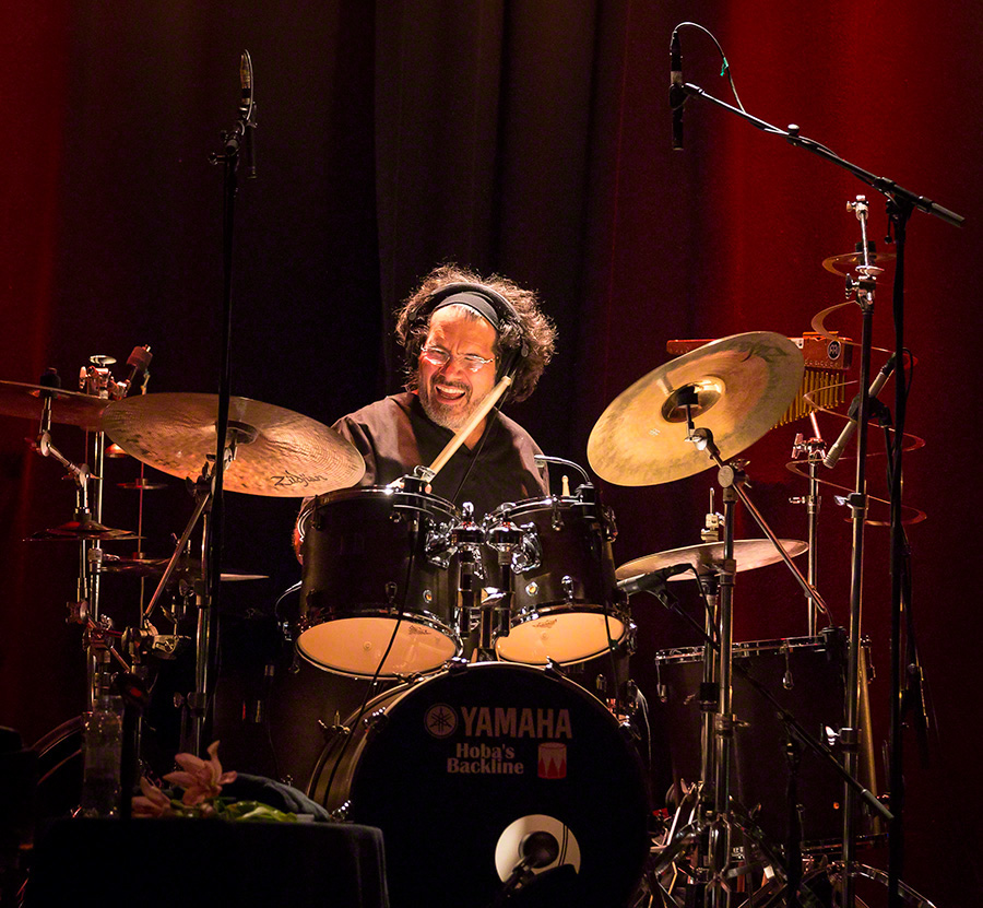 Thierry Arpino performs with Lisa Fischer and Grand Baton at Cosmopolite Scene in on 12 May 2016. Lineup:JC Maillard (guitar)Thierry Arpino (drums)Aidan Carroll (bass)Lisa Fischer (vocal)